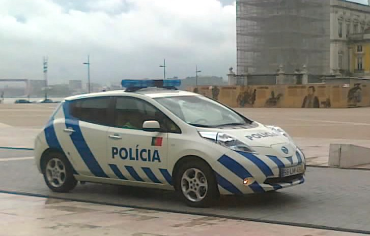 Police electric car (Nissan Leaf), Lisbon